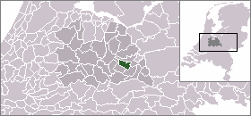 Location of Dutch former municipality Maarn in 2005. Made by me (Mtcv), PD.